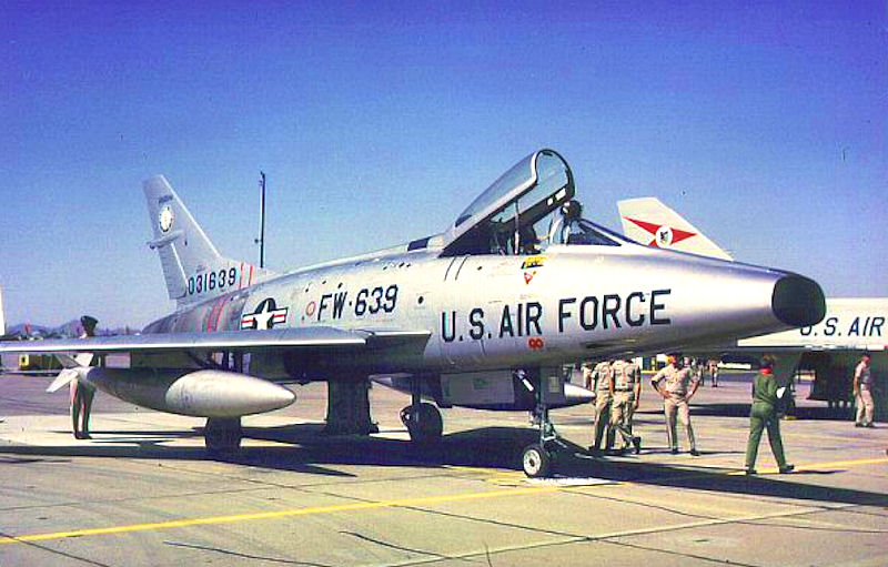 152d Fighter-Interceptor Squadron - F-100A 53-1639. Note the F-106 in Background.